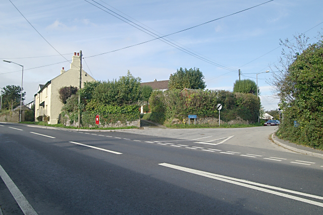 A388, Carkeel, Saltash. The junction from Carkeel village onto the busy A388 Saltash to Callington road. Plenty of overhead cables to be seen!